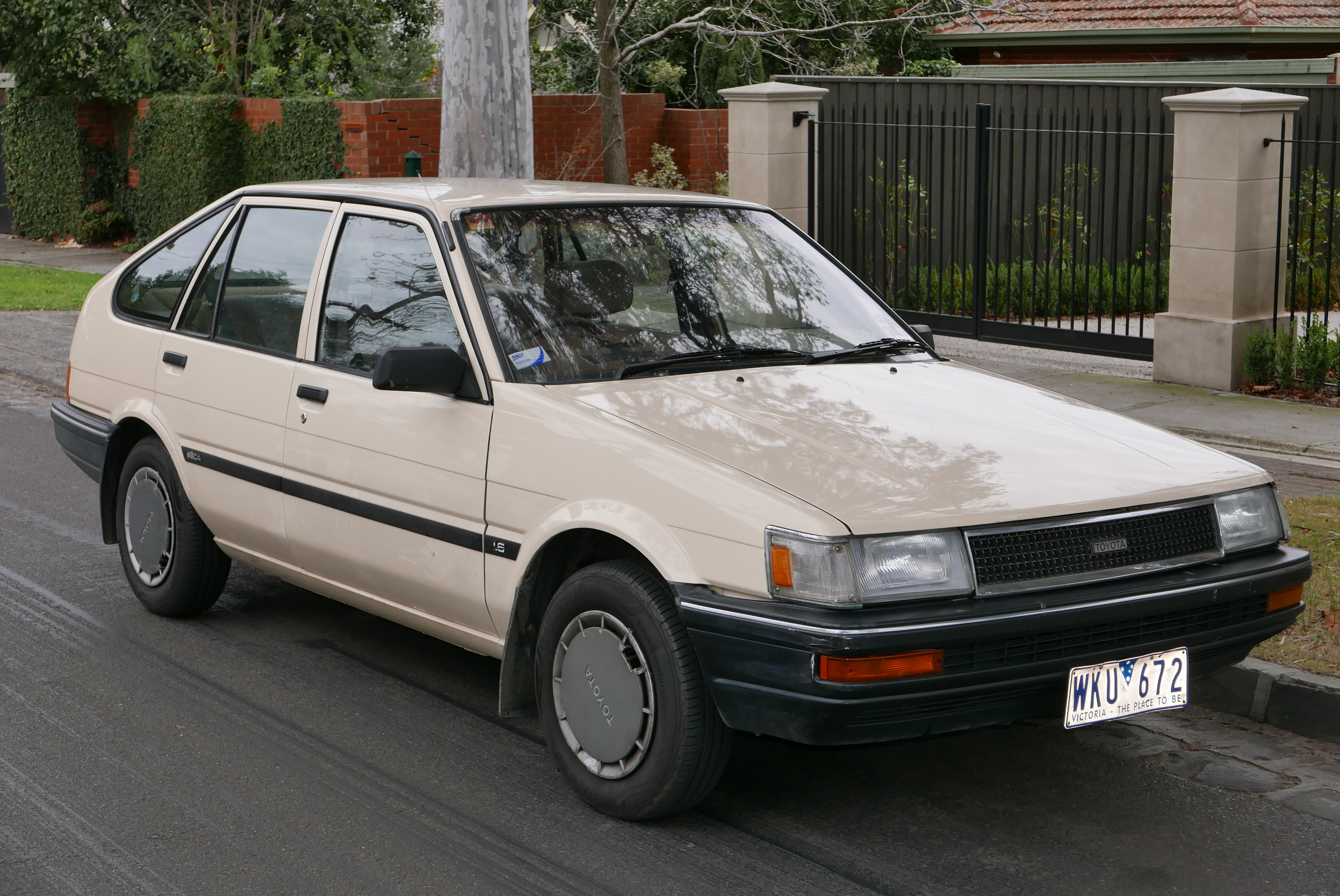 1987 Toyota Corolla (AE82) CS Seca liftback. Photographed in Kew, Victoria, Australia. Vehicle registration enquiry results Jurisdiction Victoria Registration WKU672 Chassis code AE829757530 Engine code 4A9020664 Compliance date 1987-04 Year of manufacture 1987